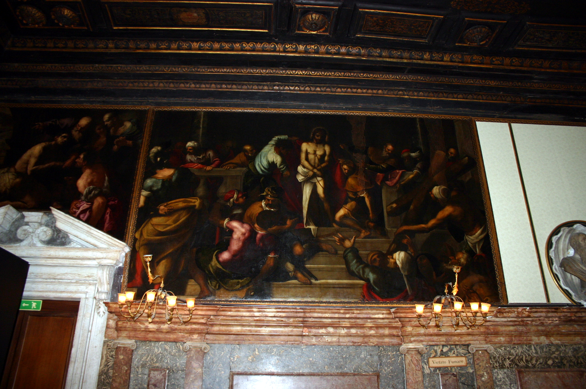 Venice, Scola di san Fantin, Aula Magna. Baldassarre d'Anna, Ecce homo. Picture by Giovanni Dall'Orto, August 12, 2007.